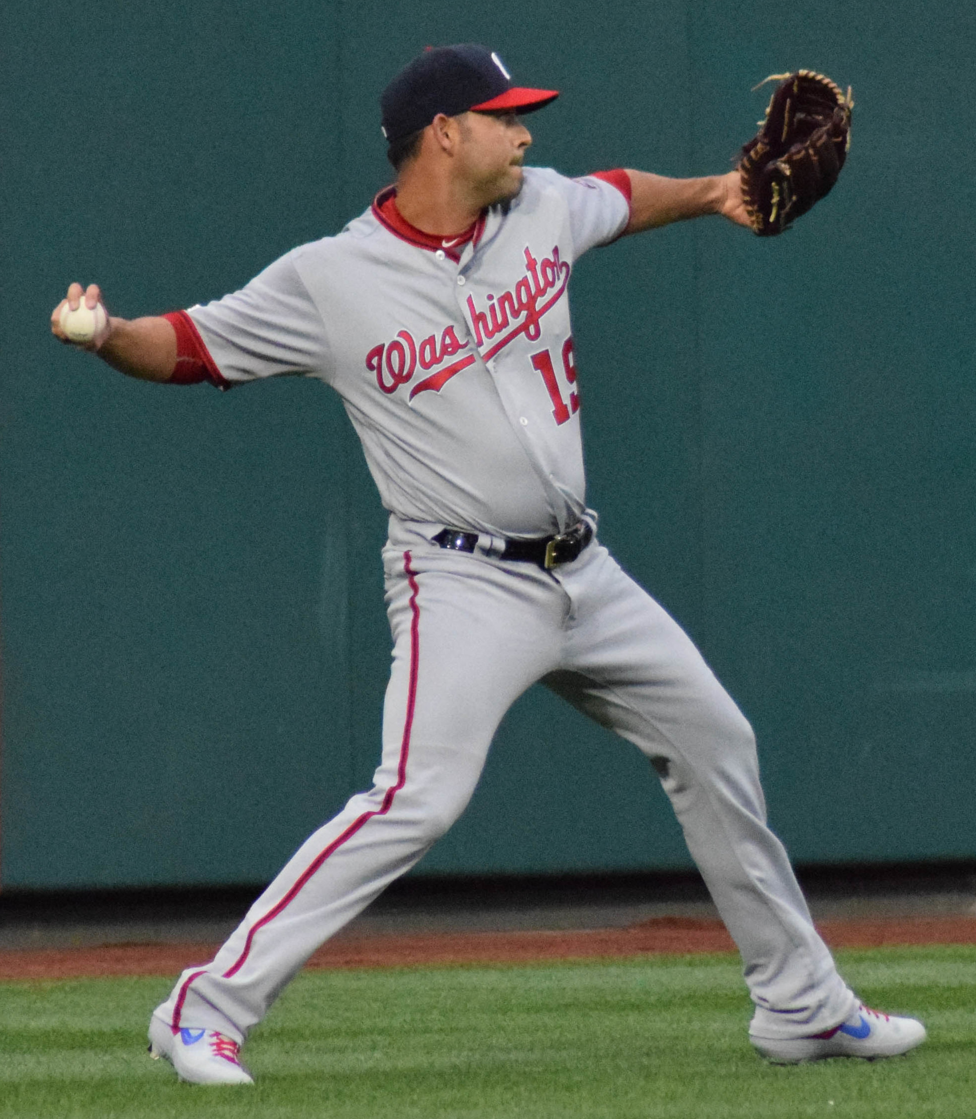 Anibal Sanchez of the Washington Nationals warms up in the outfield at Citizens Bank Park in Philadelphia before a 2019 game